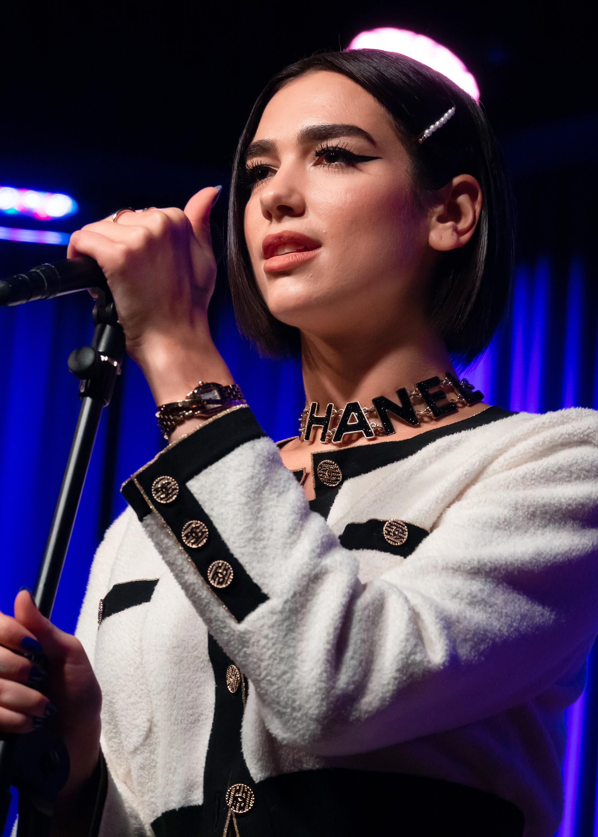 Dua Lipa interview and live performance at the Grammy Museum in Los Angeles, California, on Friday, September 28, 2018.